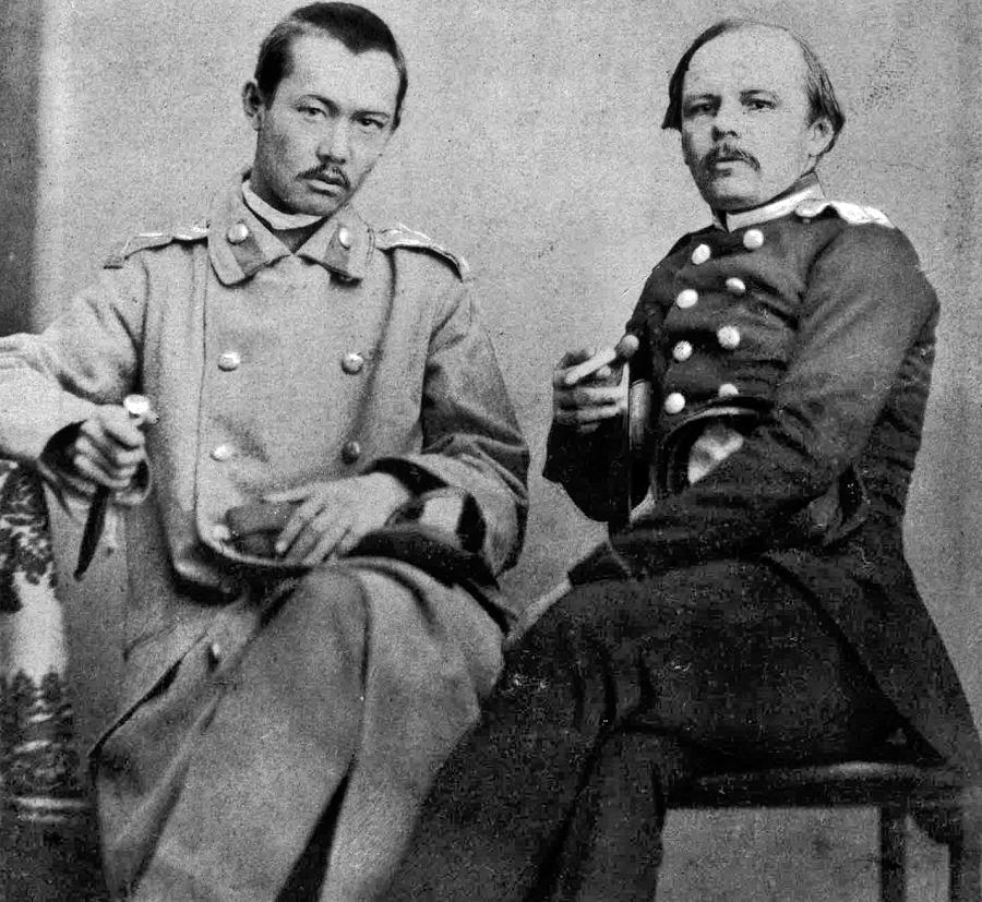 Chokan Valikhanov (left) and Fyodor Dostoyevsky (right), photograph shot in 1858